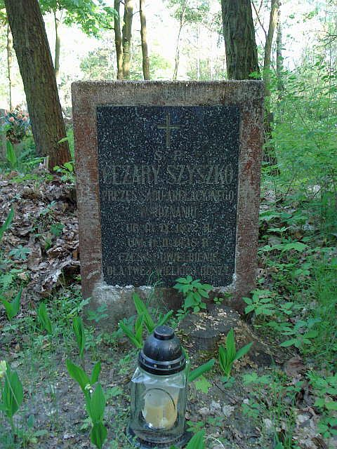 Gravestone of the lawyer Cezary Szyszko (1872-1938) at the Miłostowo Cemetery in Poznań, Evangelical part